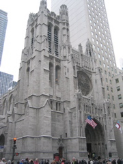 Image of Saint Thomas Church in New York City taken from the Southeast corner of (then East) 53rd Street and Fifth Avenue.